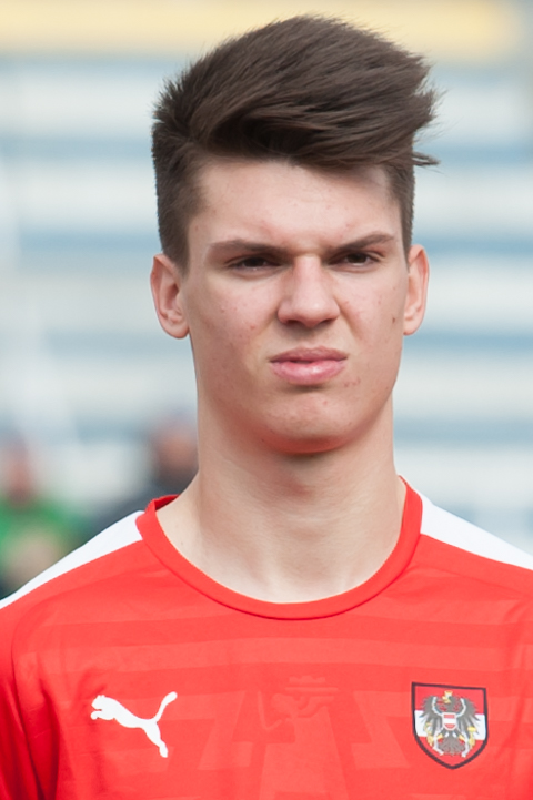 European Under-19 Championships 2015 Elite Round, Austria vs. Croatia, 28/03/2015 Wiener Neustadt, Lower Austria